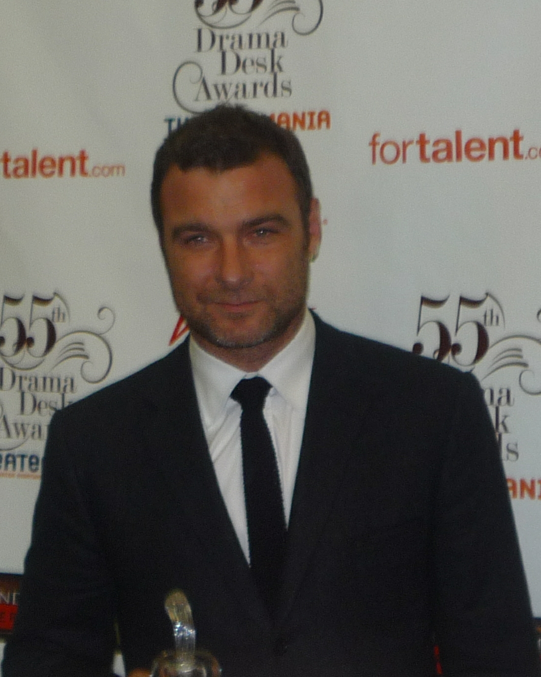 Liev Schreiber at Drama Desk Awards 2010